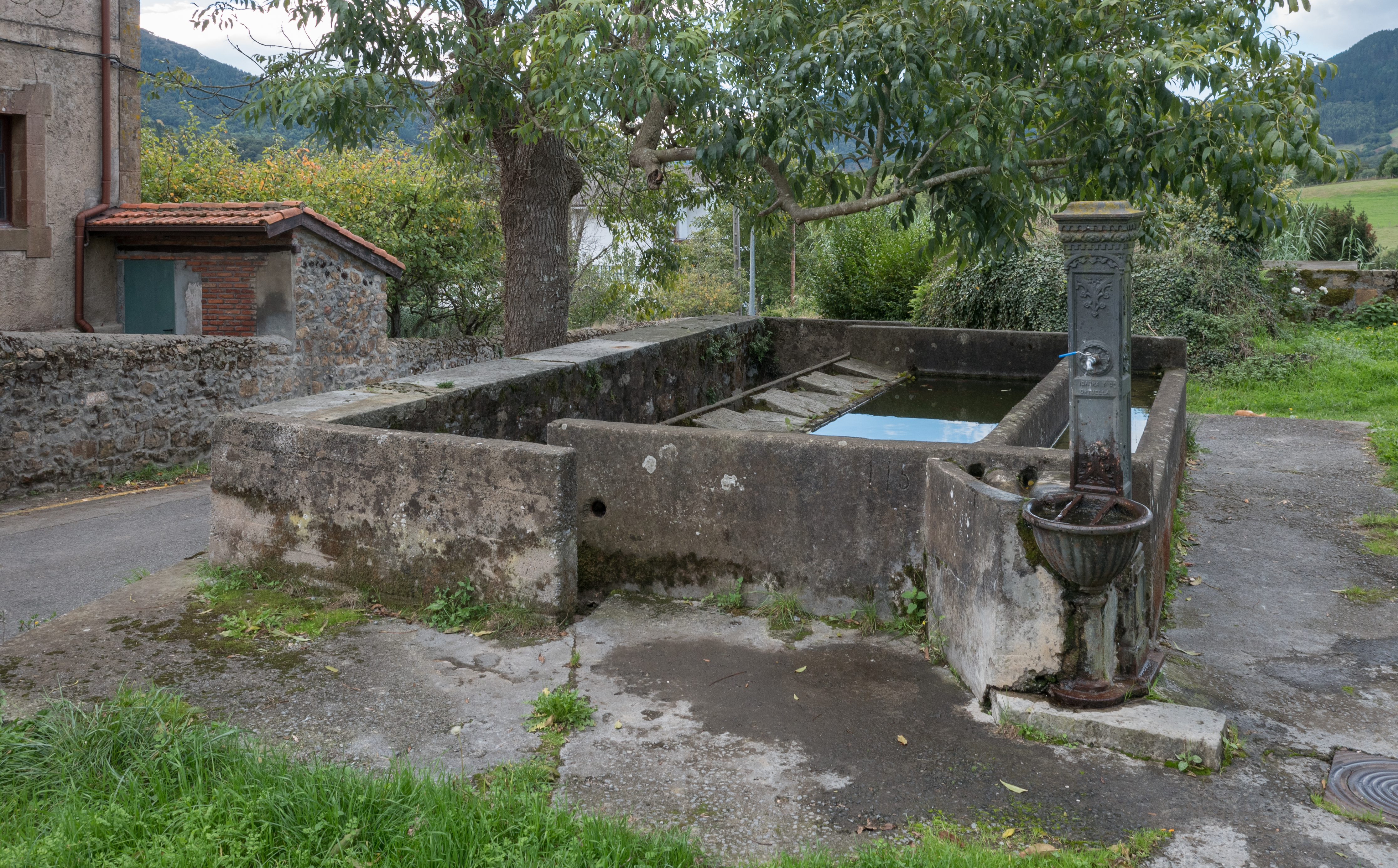 Washing place in the Las Ribas quarter of Sopuerta. Biscay, Basque Country, SpainEuskara: Sopuertako latsarria edo harraska, Las Ribas auzoan. Bizkaia.